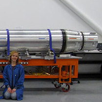 Paul Turin, Shinya Saito, Stephen McBride, Steven Christe, Säm Krucker, Lindsay Glesener). Credit: NASA/S. Fitzpatrick